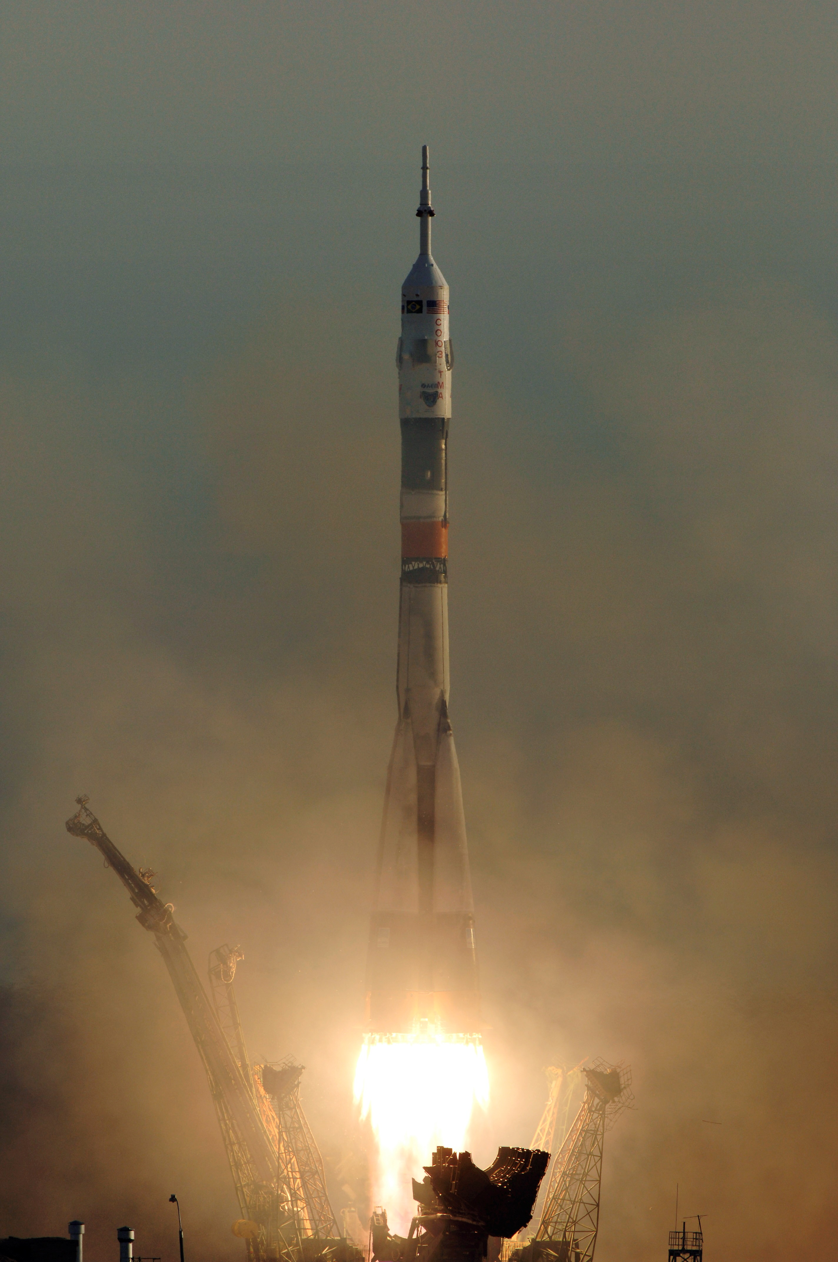 With the launch of a Soyuz rocket, cosmonaut Pavel V. Vinogradov, Russia’s Federal Space Agency Expedition 13 International Space Station commander, and astronaut Jeffrey N. Williams, NASA International Space Station science officer and flight engineer, began their mission Wednesday at 9:30 p.m. EST, (Thursday, March 30, 2006, 8:30 a.m. Kazakhstan time). They launched aboard a Soyuz TMA-8 rocket from the Baikonur Cosmodrome in Kazakhstan. Joining them for several days as a Soyuz crew member before returning home with the Expedition 12 crew is astronaut Marcos Pontes, Brazilian Space Agency.